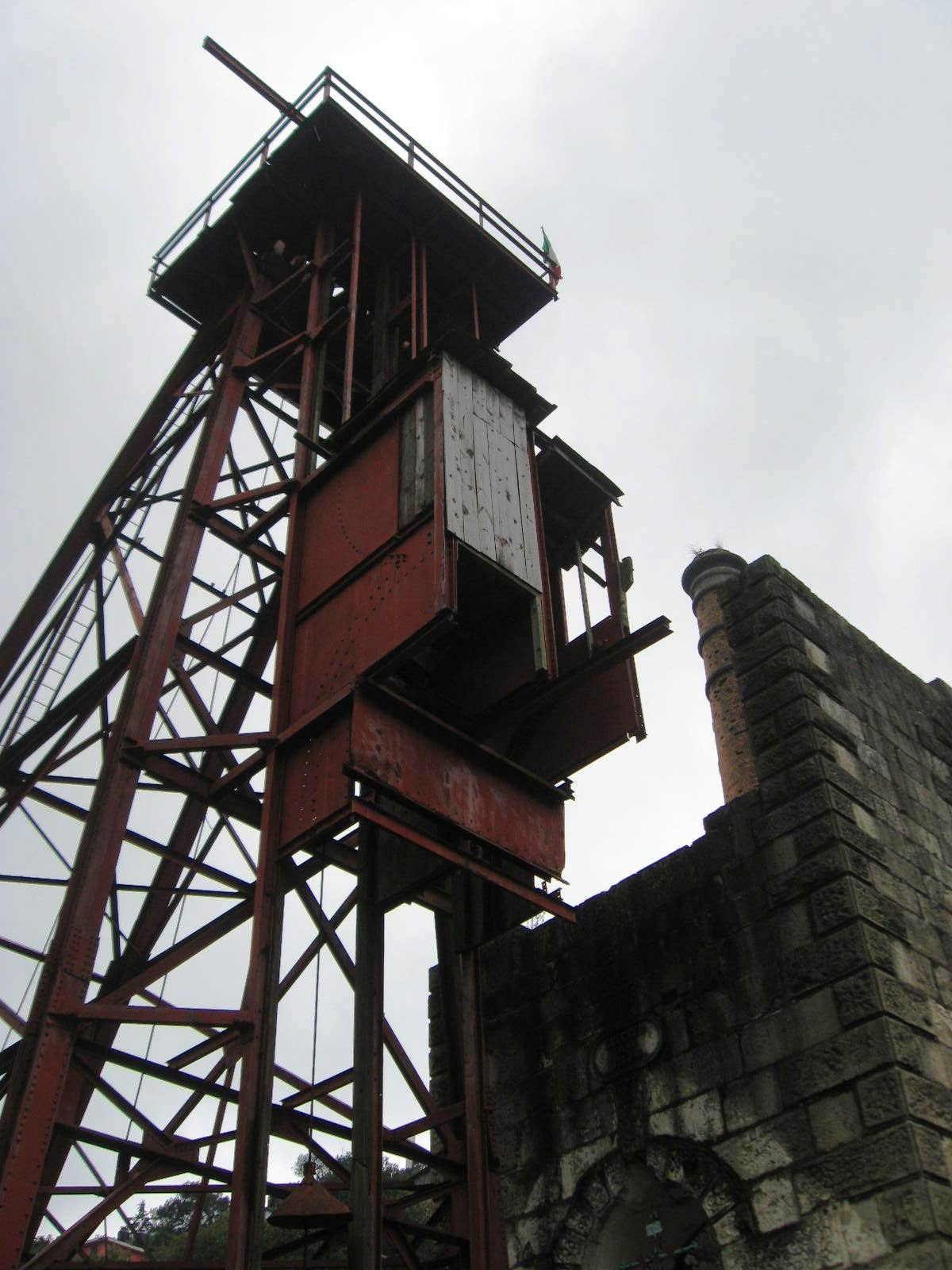 Tower at the Acosta Mine Museum in Real del Monte Hidalgo State Mexico